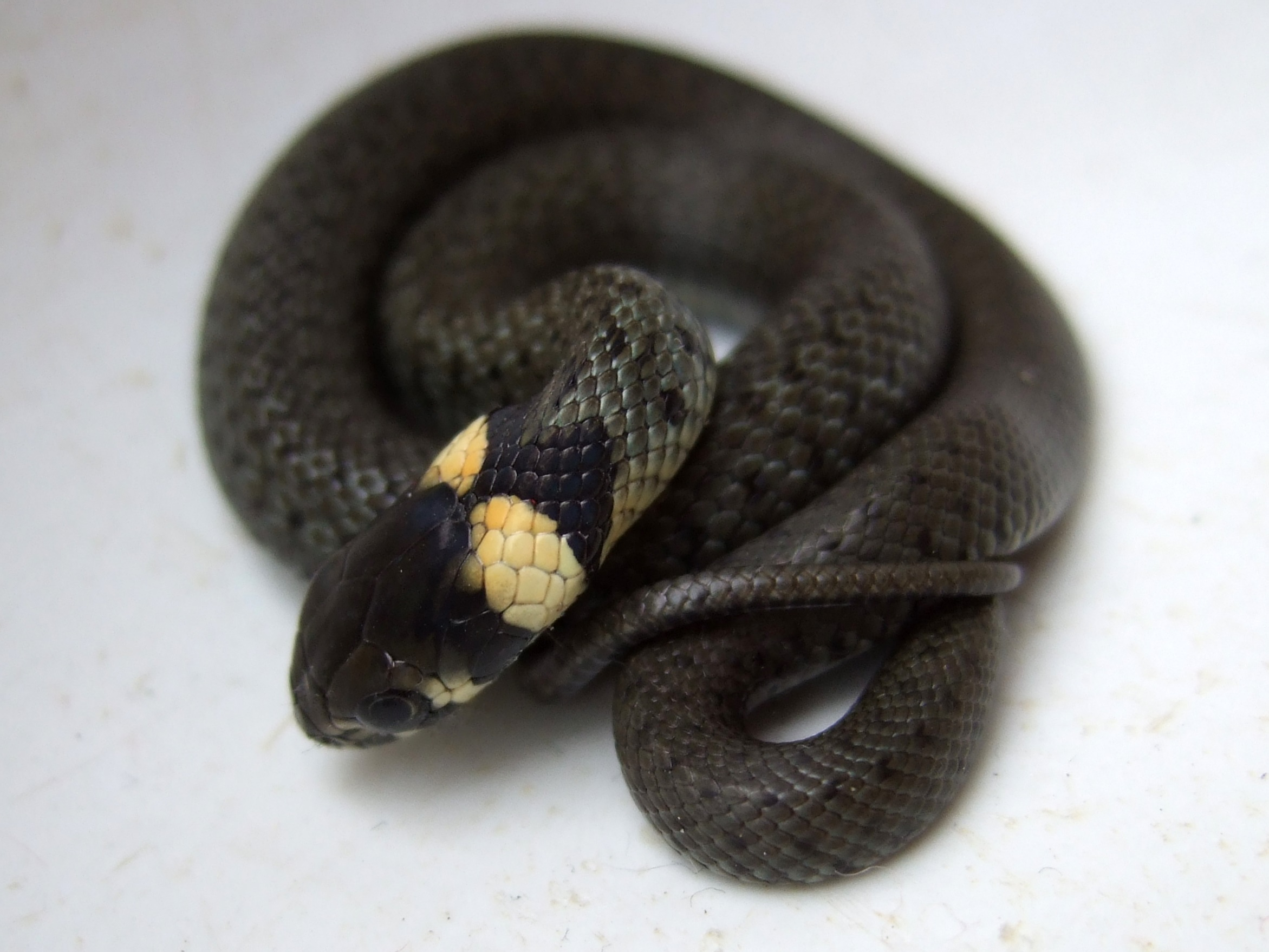 Grass snake baby in Kirchwerder, Hamburg.